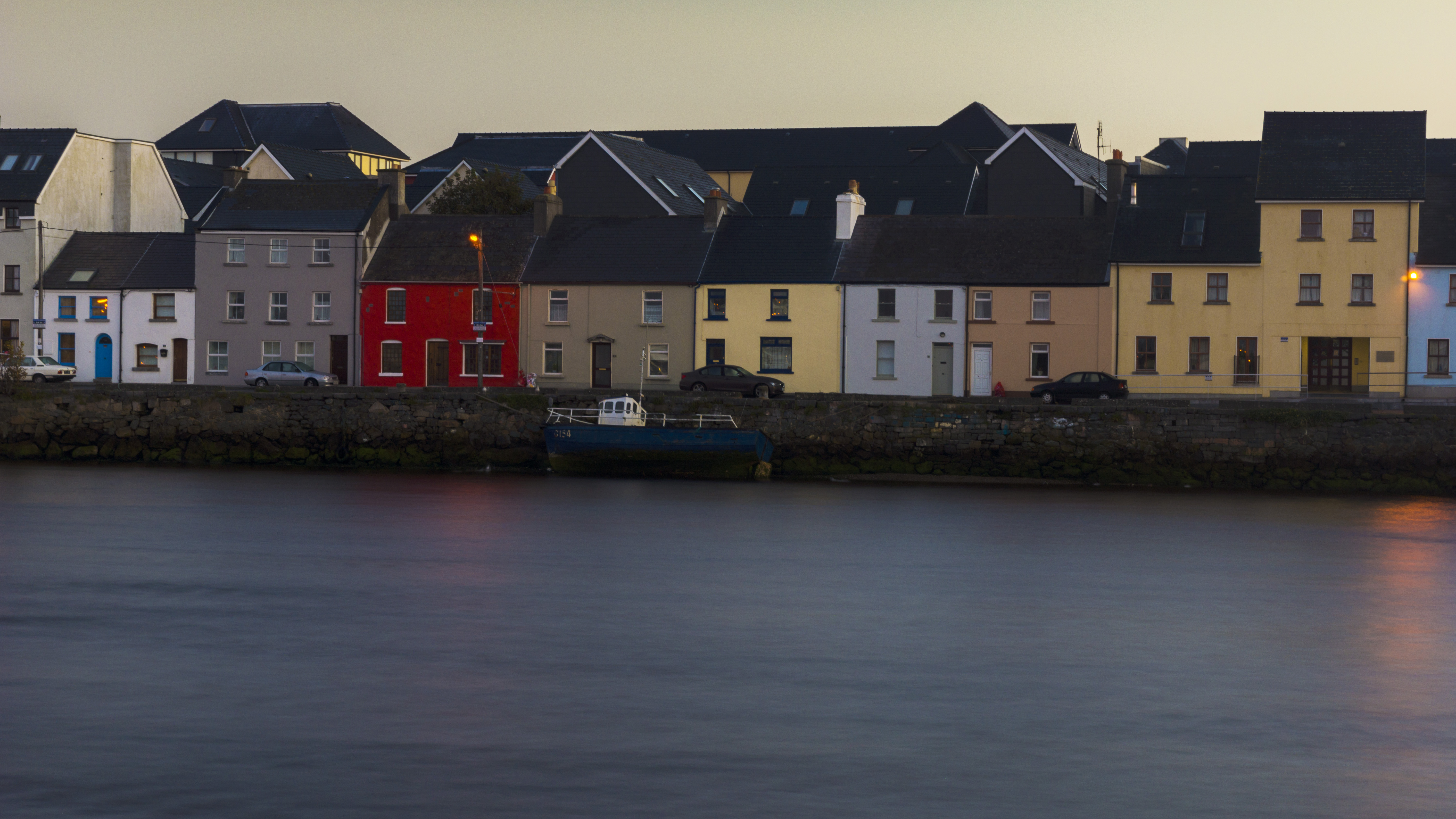 Nothing really extraordinary, just playing with the ND filter this morning. Like the smooth water effect it causes. Very uninteresting sky, though.